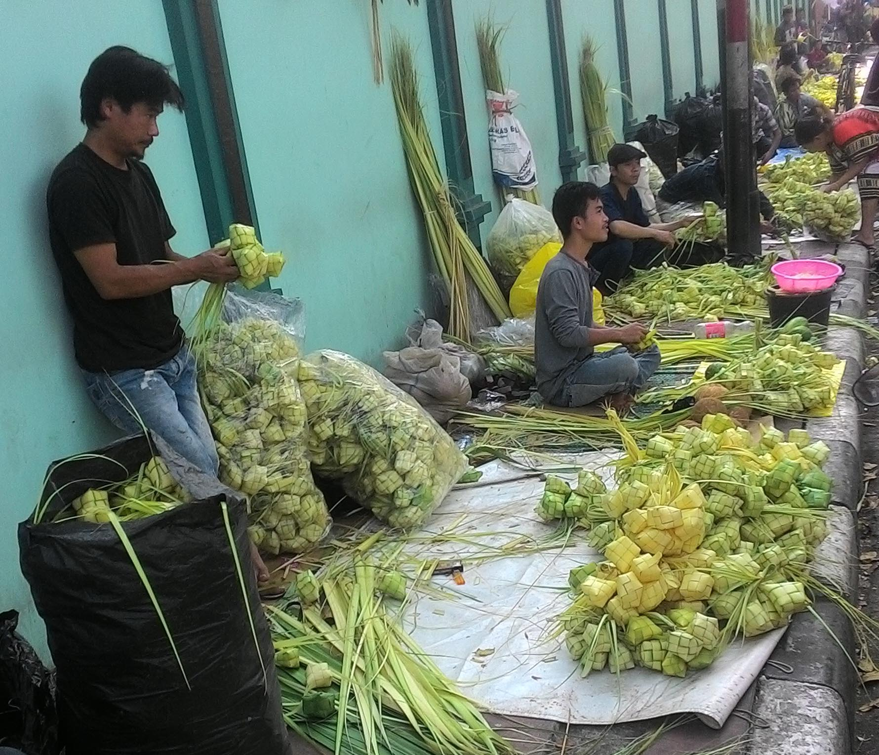 People weaving young coconut fronds (Indonesian: janur) into ketupat pouch to be sold prior of Lebaran haji (Eid al-Adha) in Rawasari Market, Central Jakarta, Indonesia. This ketupat puch will be filled with rice and boiled to make ketupat rice dumpling, an essential food to be consumed by Indonesian Muslims during Lebaran (Eid al-Fitr and Eid al-Adha) celebrations.